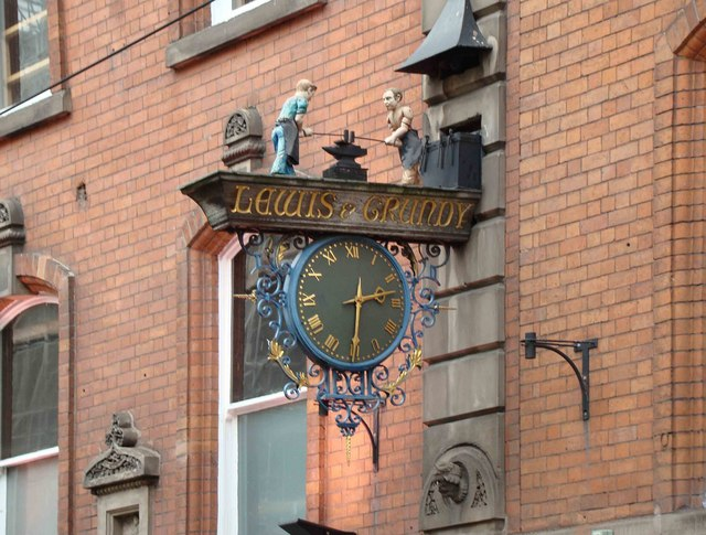 Lewis & Grundy Clock Lewis & Grundy were prominent city hardware merchants but are no longer operating from this building on Victoria Street which is now the Pit & Pendulum bar.